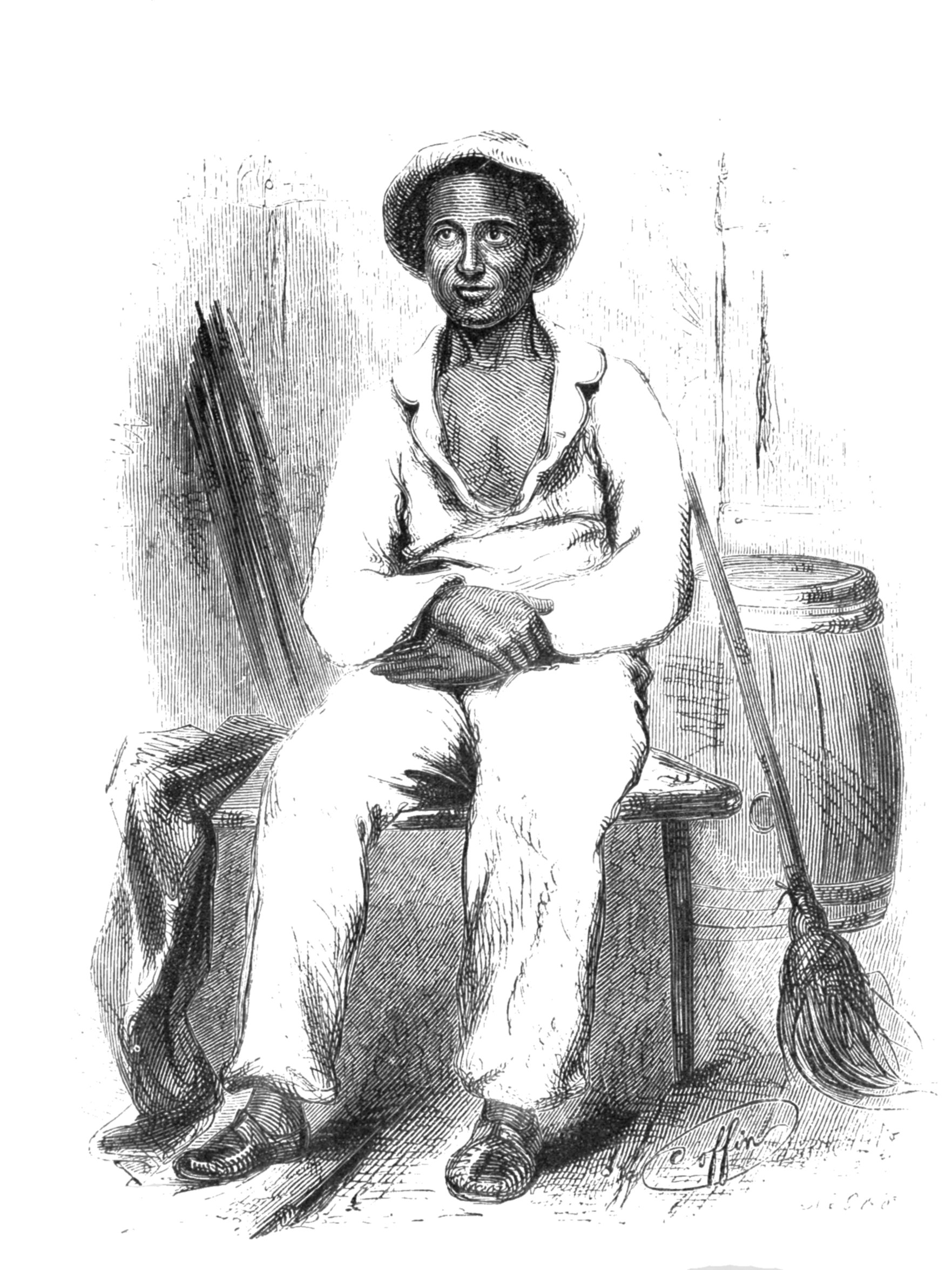 Engraving of Solomon Northup "in his plantation suit"